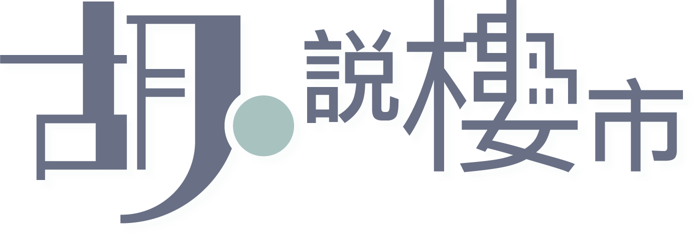 wuchatprop